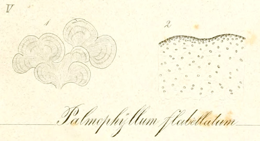 Palmophyllum flabellatum Kützing = Palmophyllum crassum (Naccari) Rabenhorst